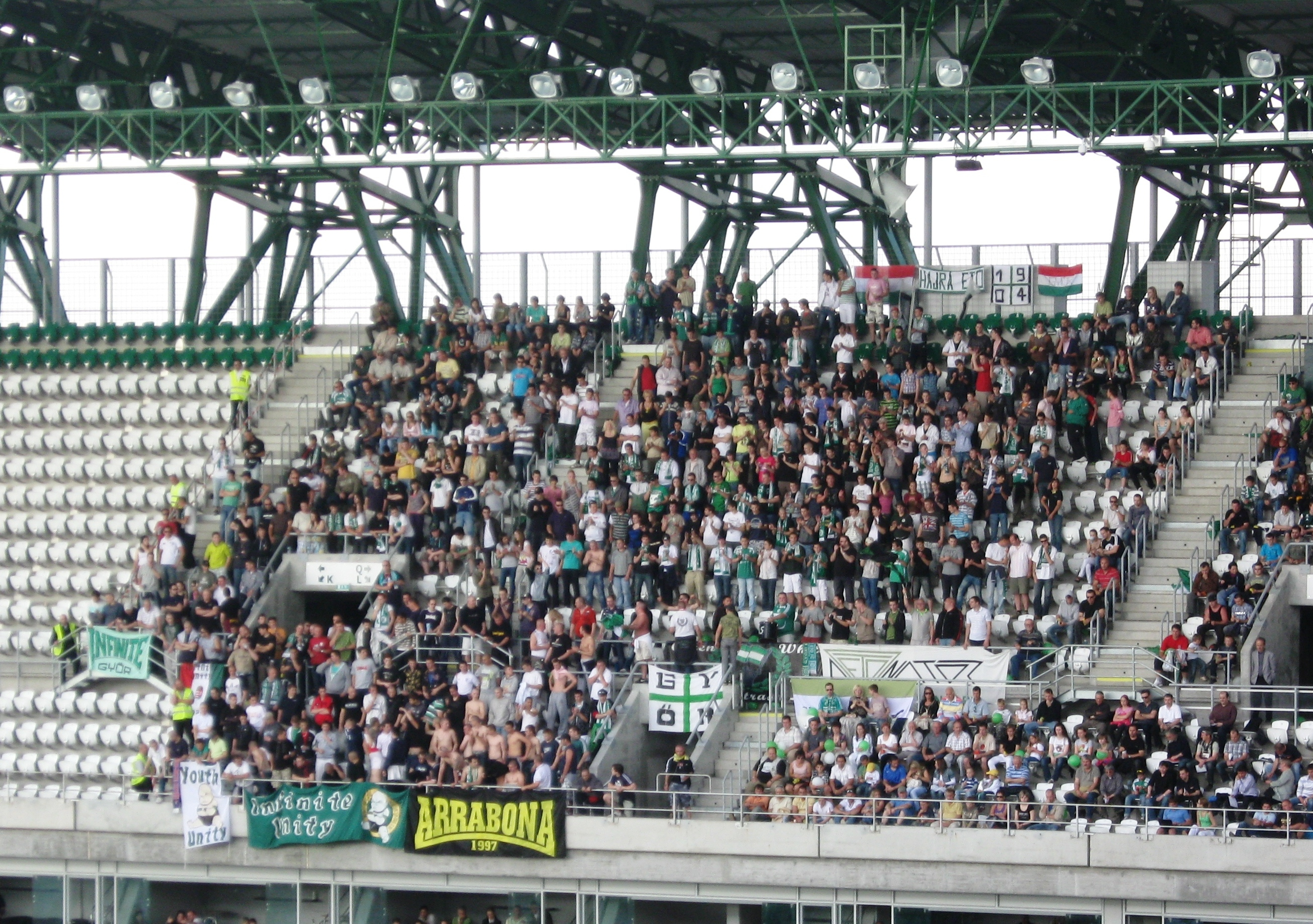 ETO fans (2010).